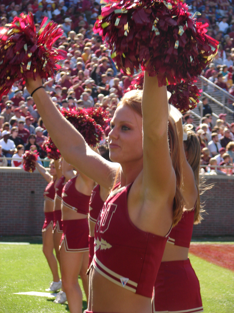 Picture of Florida State University cheerleaders at a game against Virginia.